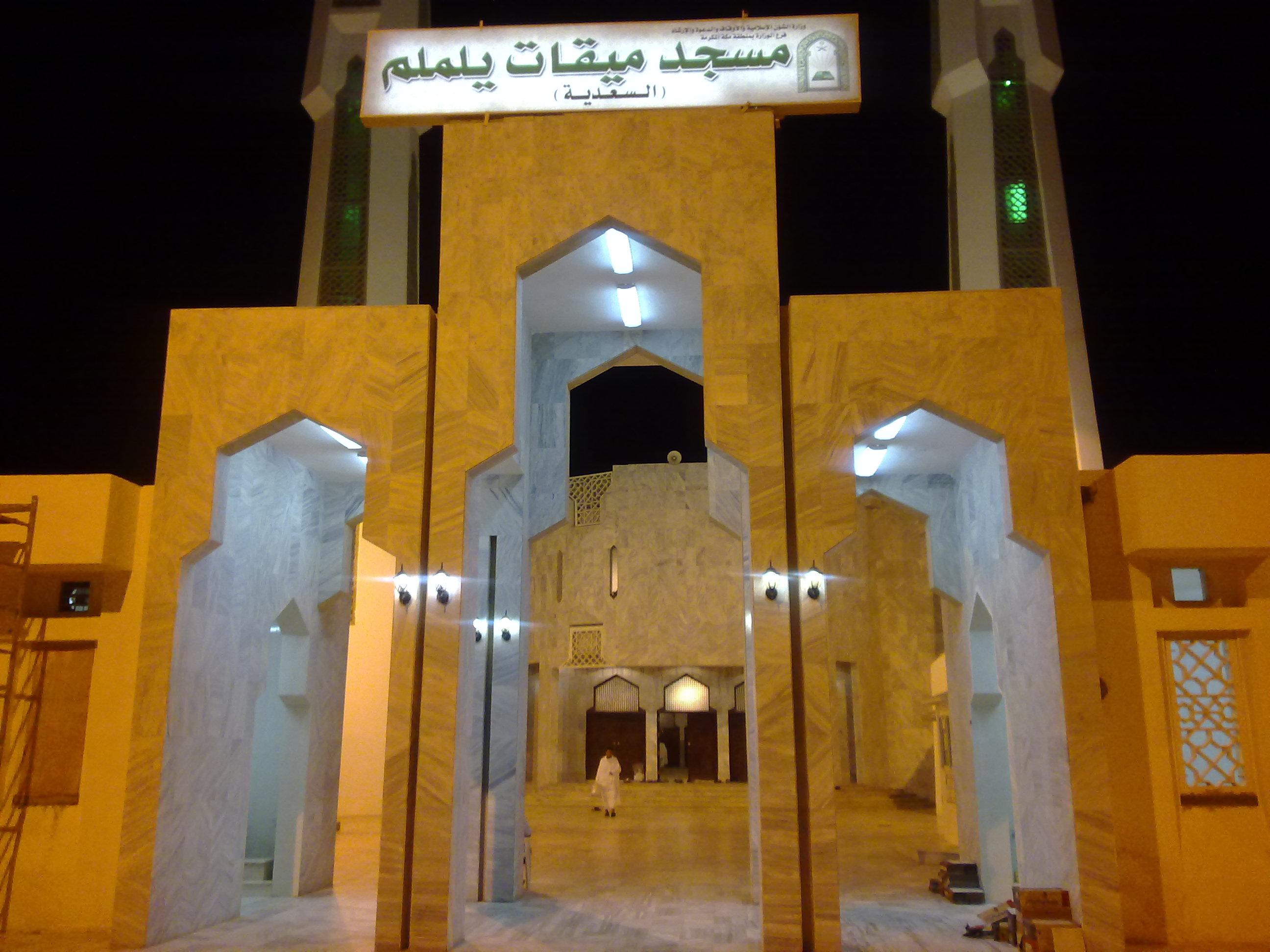 Miqat the people of Yemen , Named Yalamlam or Alsaadiah